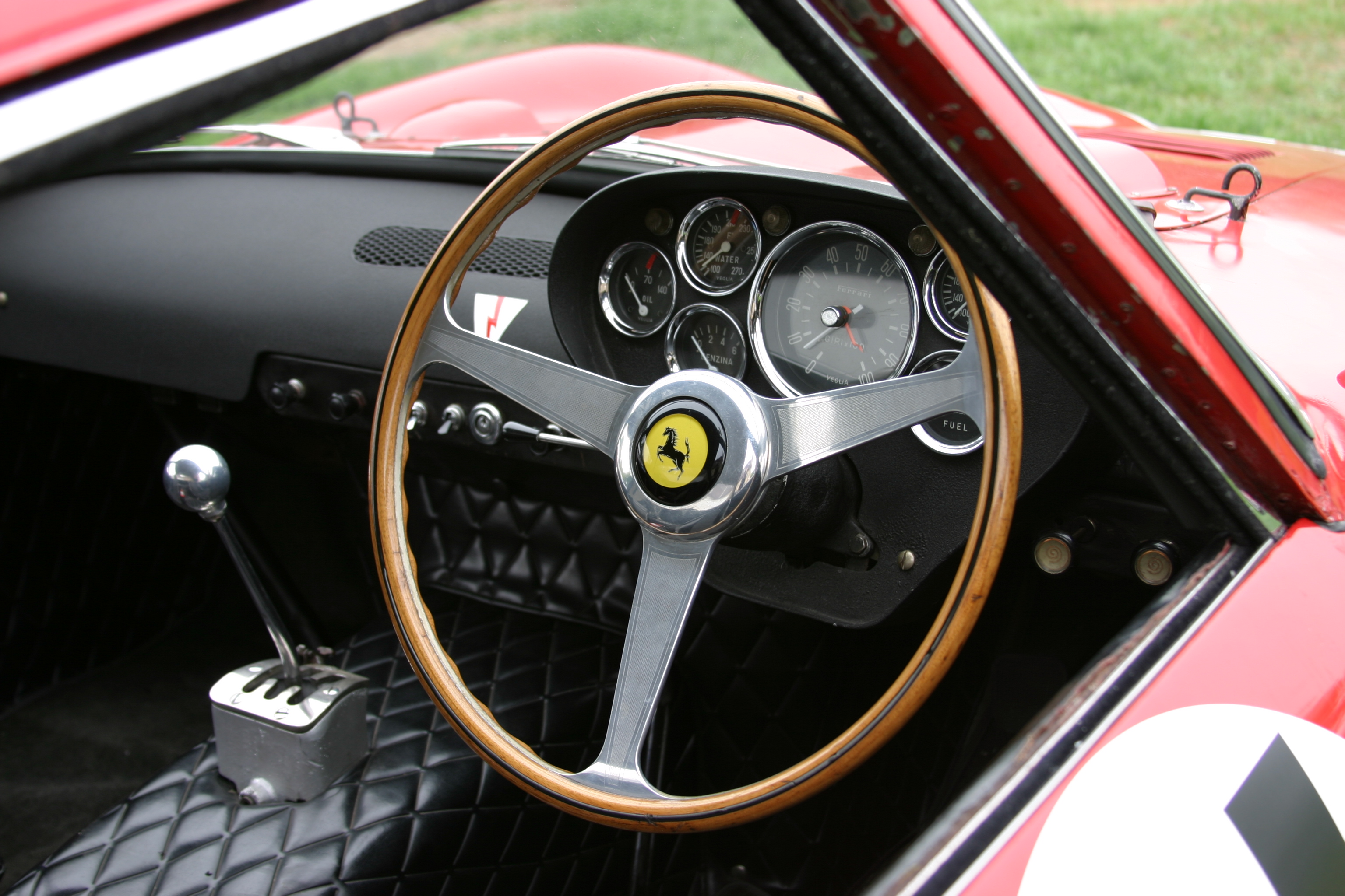 Interior of Ferrari 250 GTO s/n 3647GT, an alloy-bodied RHD car. Photo taken at "Tutto Italiano" event on the lawn of the Larz Anderson Auto Museum in Brookline, Massachusetts.